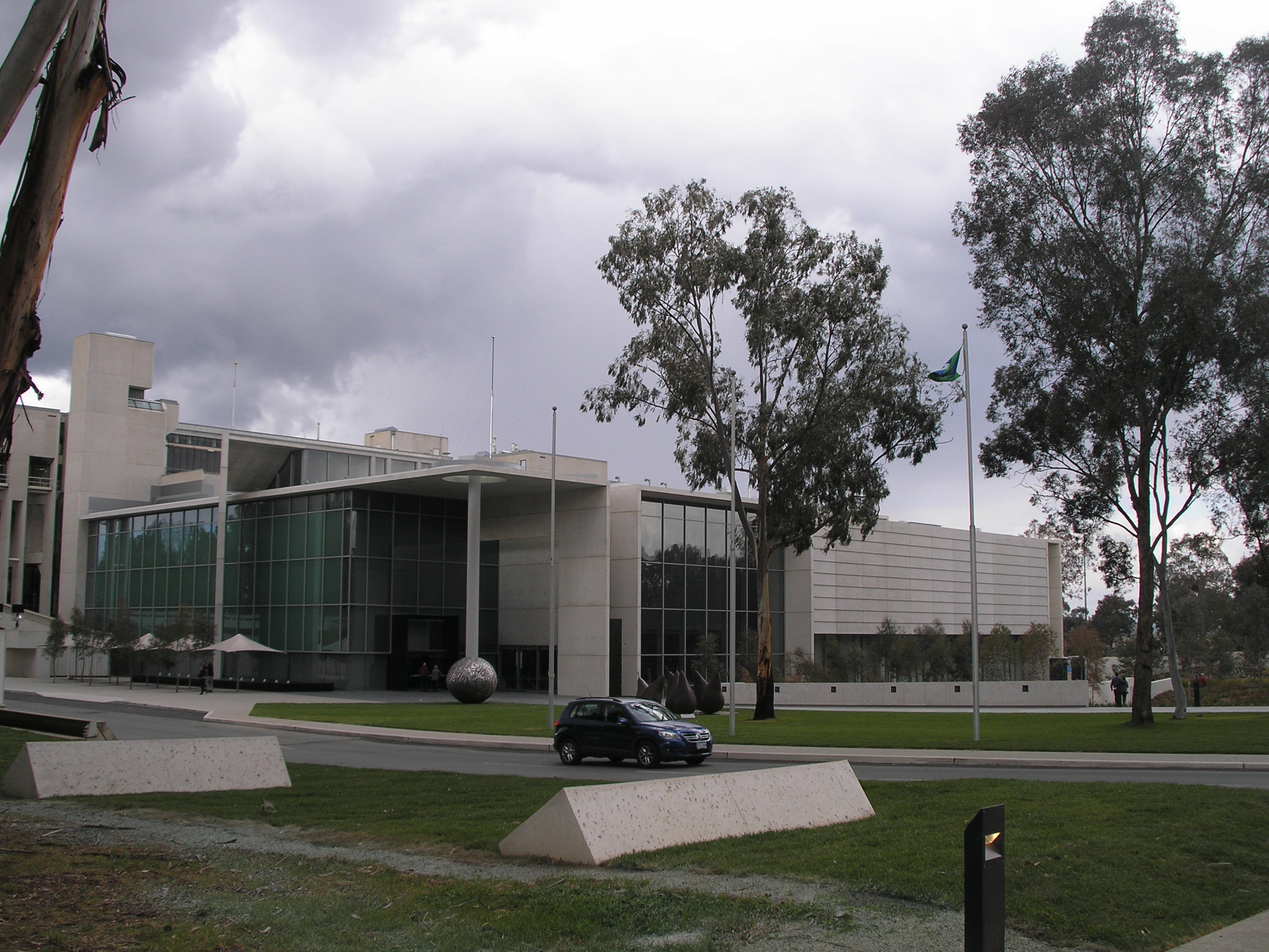 Extension to the National Gallery of Australia, Canberra, opened October 2010